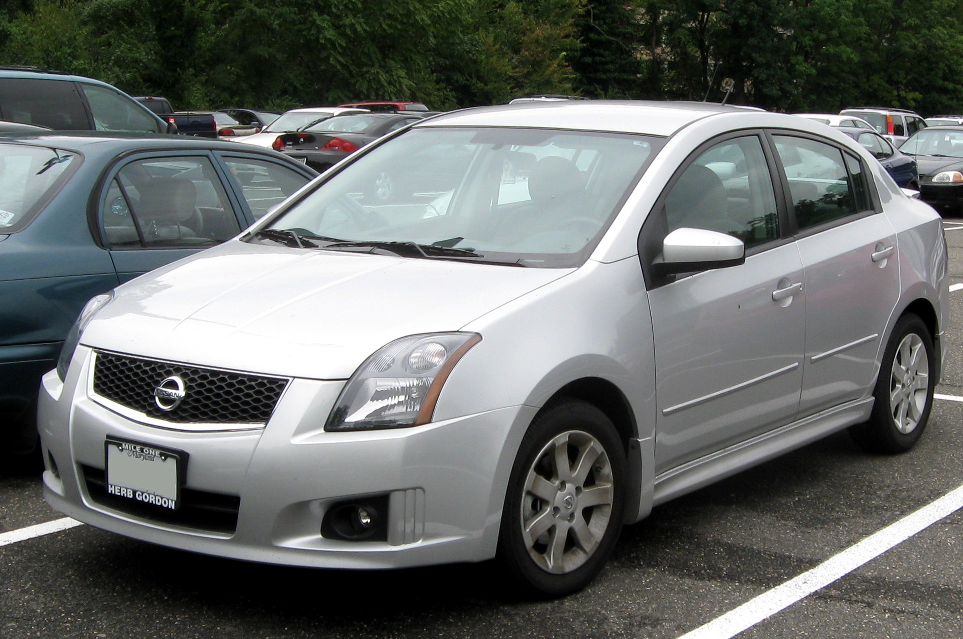 2010 Nissan Sentra SR photographed in College Park, Maryland, USA.